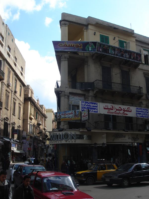 Corner of Nebi Daniel street, Alexandria